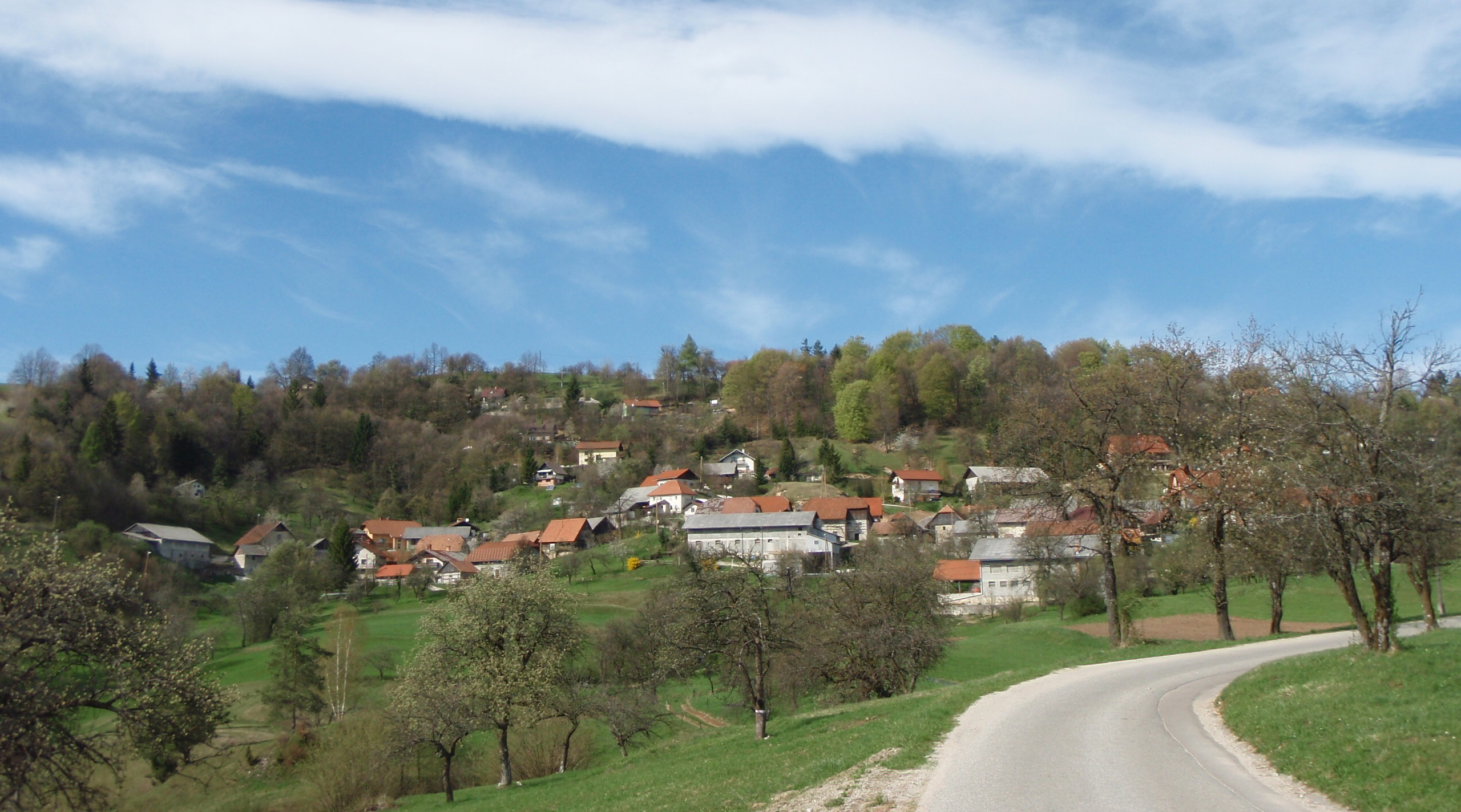 Volavlje, Slovenia